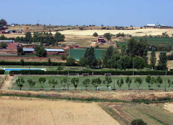 view of the soccer field and pool in Villamanan